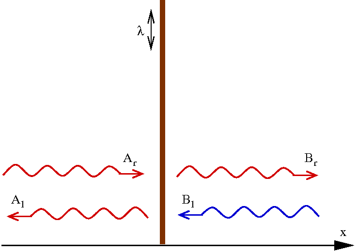 scattering at a delta function potential, see Delta potential barrier (QM) created by me Bamse 10:36, 28 July 2006 (UTC)